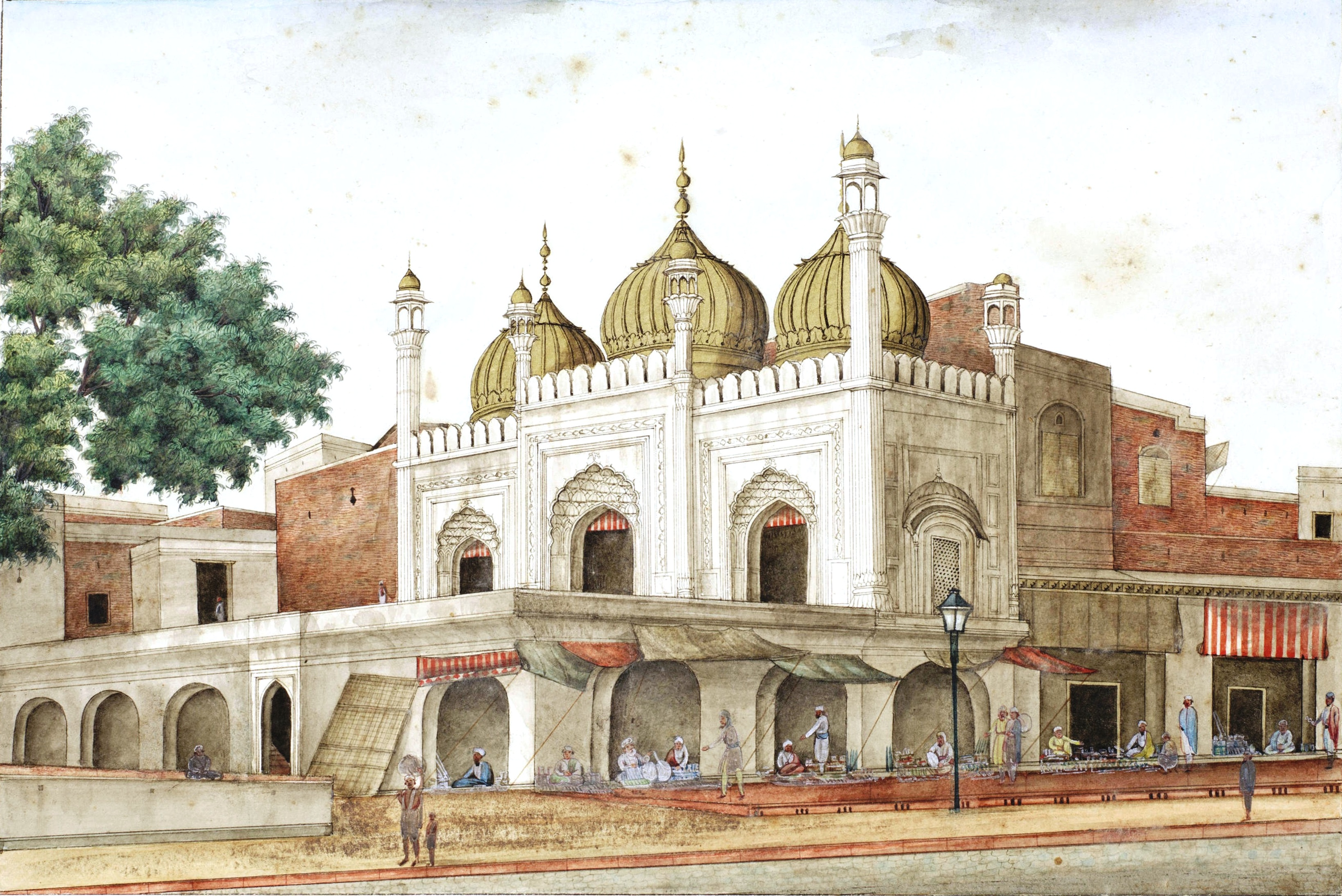 Masjid Roshun ood Daulah near the Kotuabe at Delhee. The Sunehri Masjid (Golden Mosque) of Roshan ud-Dawla at Chandni Chowk near Kutwali in Delhi. A series of 31 paintings by Ghulam Ali Khan (fl. 1817-55), consisting of views of monuments in and around Delhi, and including four portraits of the last Mughal Emperor Bahadur Shah II (reg. 1837-58) and his sons. Watercolour and gold on paper, black margin rules, three title pages, three sheets of portraits, all with identifying inscriptions in English and in Persian in nasta'liq script in black ink, the portraits with further inscriptions in nasta'liq script with the date November 1852 (Christian date written in Arabic), in later mounts, loose in contemporary green leather-covered despatch box, the lid embossed in gold DELHEE 1854. Size paintings 290 x 215 mm. and slightly smaller; mounts 318 x 394 mm.; box 435 x 365 x 110 mm.